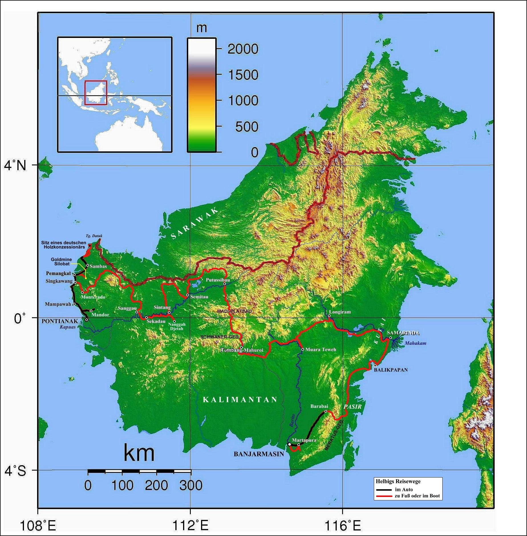 Topographic map of Borneo. Created with GMT from publicly released SRTM data This map was created with GMT.